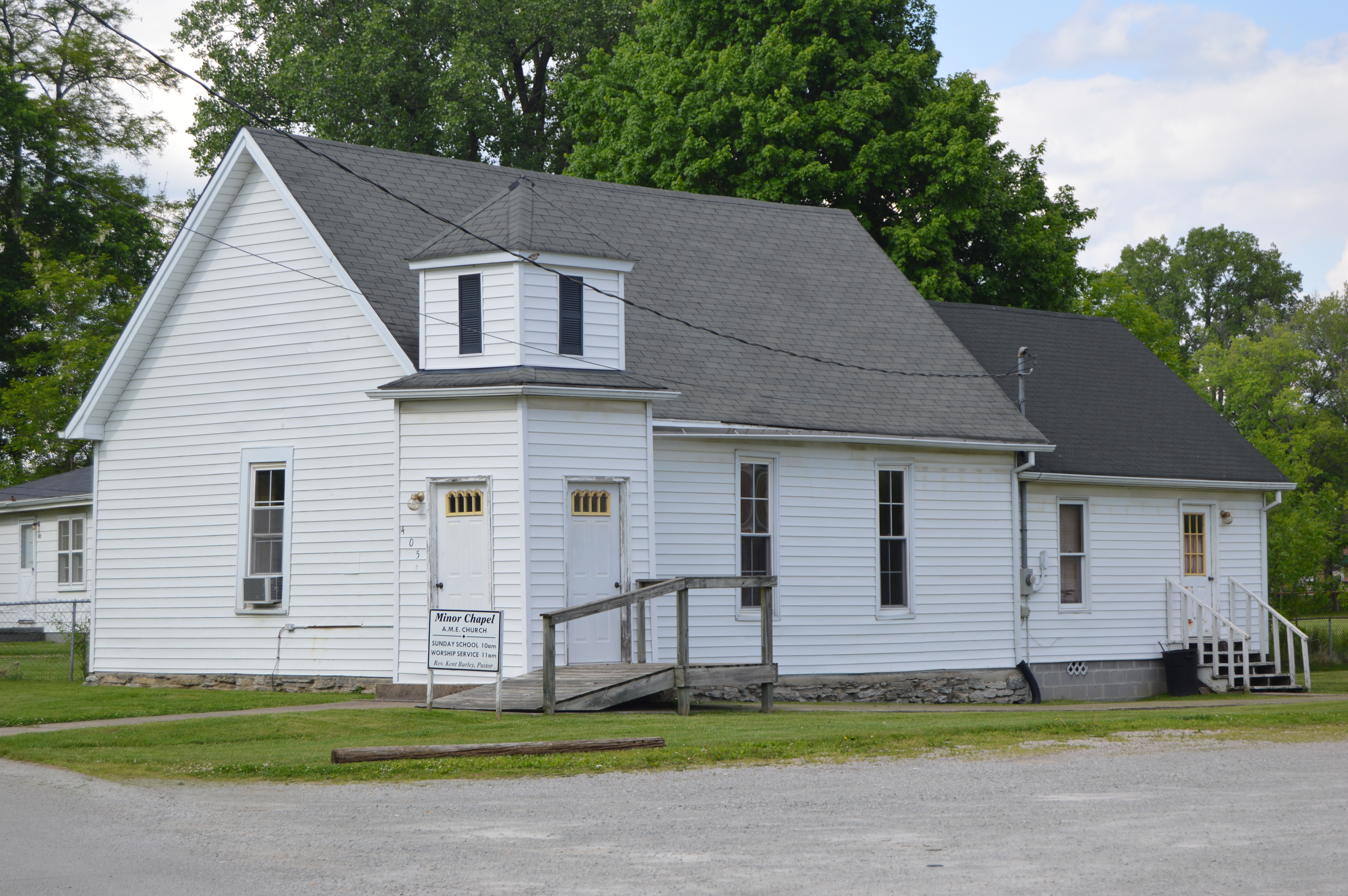 Front and southern side of the Minor Chapel AME Church, located on the eastern side of Jefferson Street north of Main Street in Taylorsville, Kentucky, United States. Built in 1895, it is listed on the National Register of Historic Places.